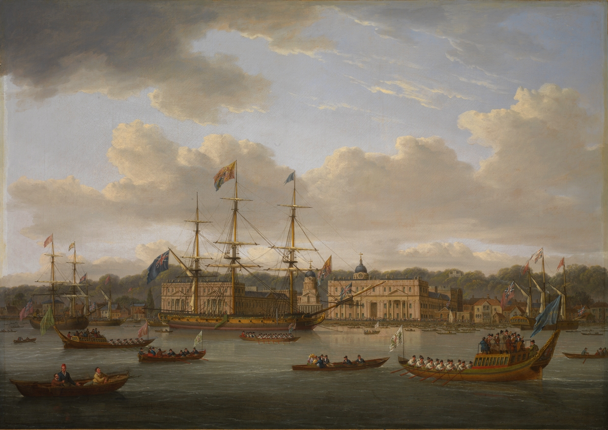 George IV was the first sovereign to visit Scotland (15-27 August 1822) since Charles I, and here the King is portrayed on his return being rowed to the watergate of Greenwich Hospital.